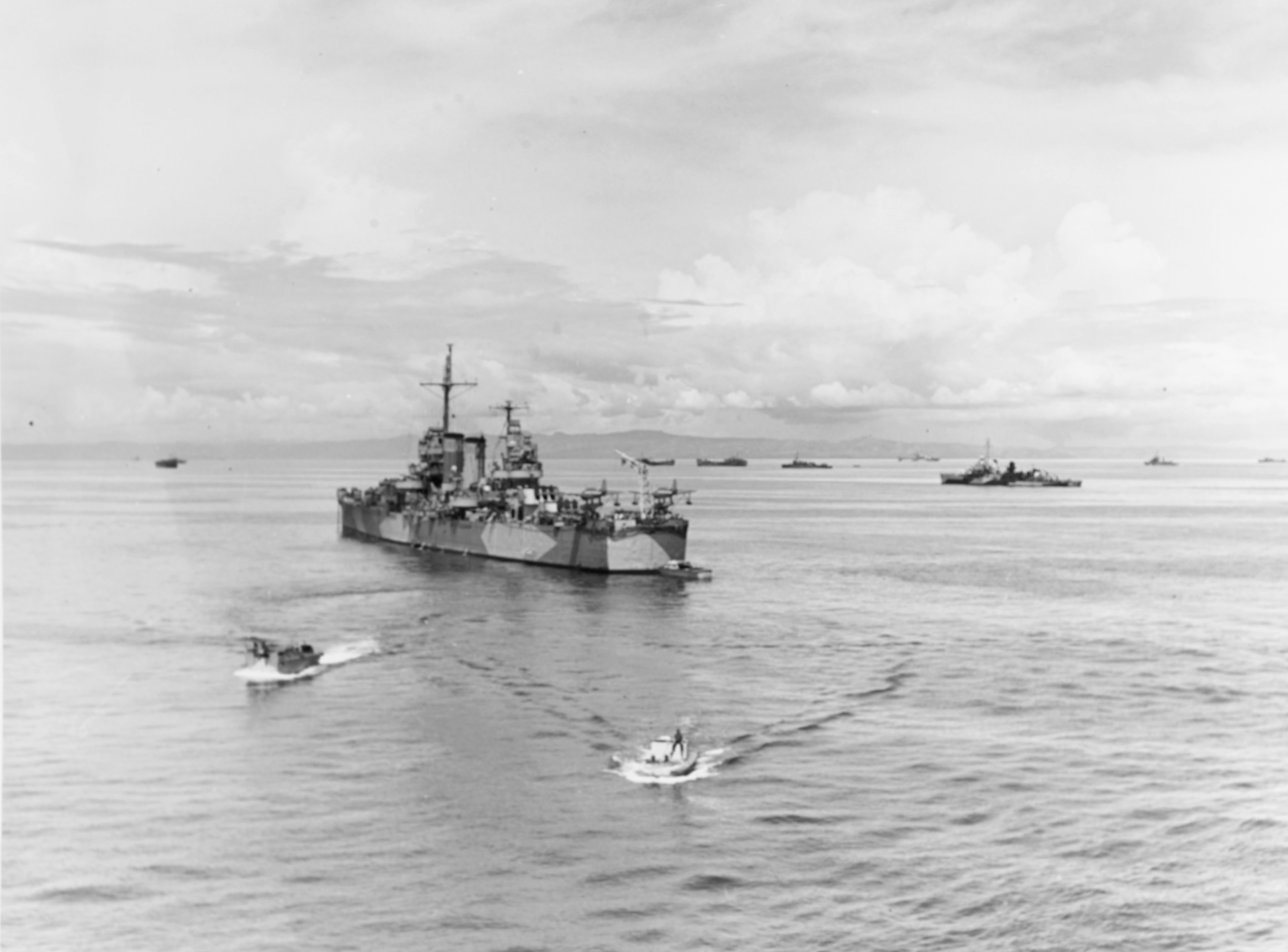 Leyte Invasion, October 1944: General Douglas MacArthur's flagship, the U.S. Navy light cruiser USS Nashville (CL-43), anchored off Leyte during the landings, circa 21 October 1944. Nashville wears camouflage Measure 33, Design 21d.